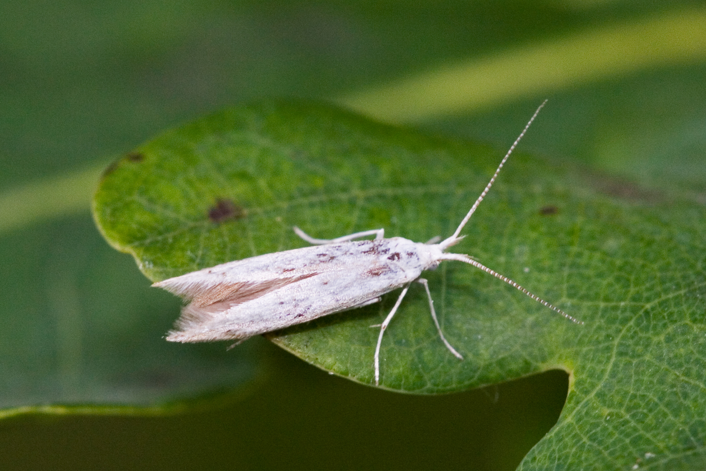 Coleophoridae spec.